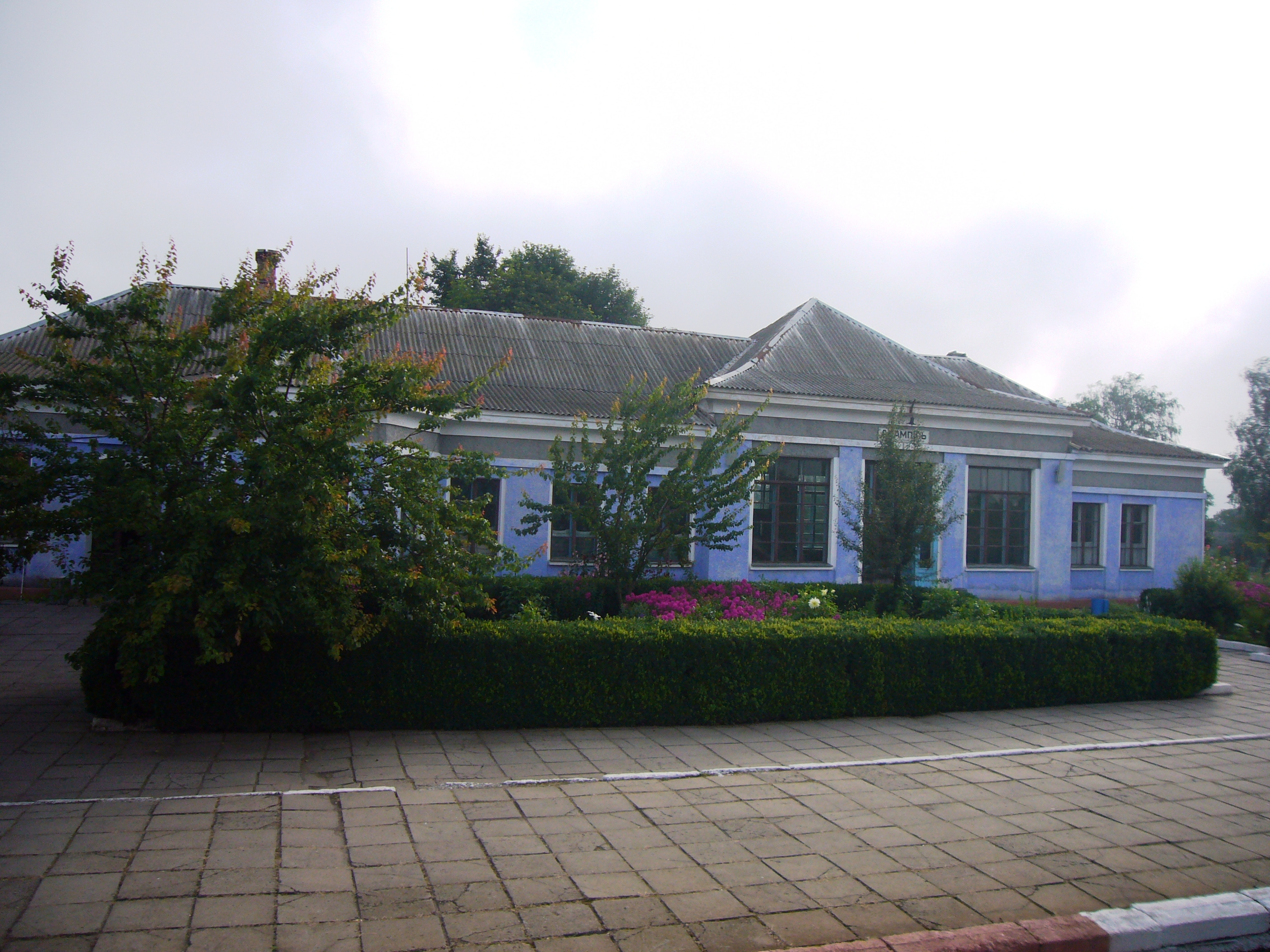 Adampil railway station, Stara Sinyava District, Khmelnitsky Oblast, Ukraine.